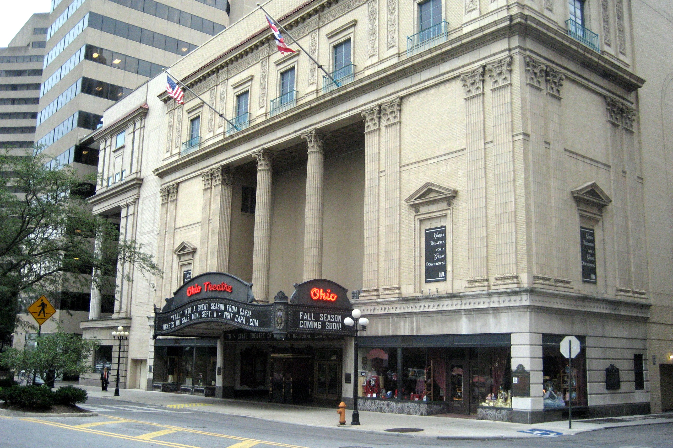 The Ohio Theatre in Columbus, Ohio. Photo obtained from taken by user wallyg.